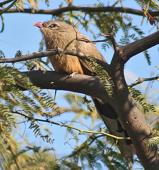 Sirkeer Malkoha Phaenicophaeus leschenaultii at Bharatpur, Rajasthan, India.